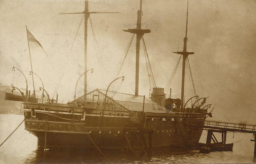 HMS Calliope harboured at Blyth in Northumberland about 1920. The stern has a false gallery. There is a gabled shed erected above the quarterdeck, between the poop and the stack.